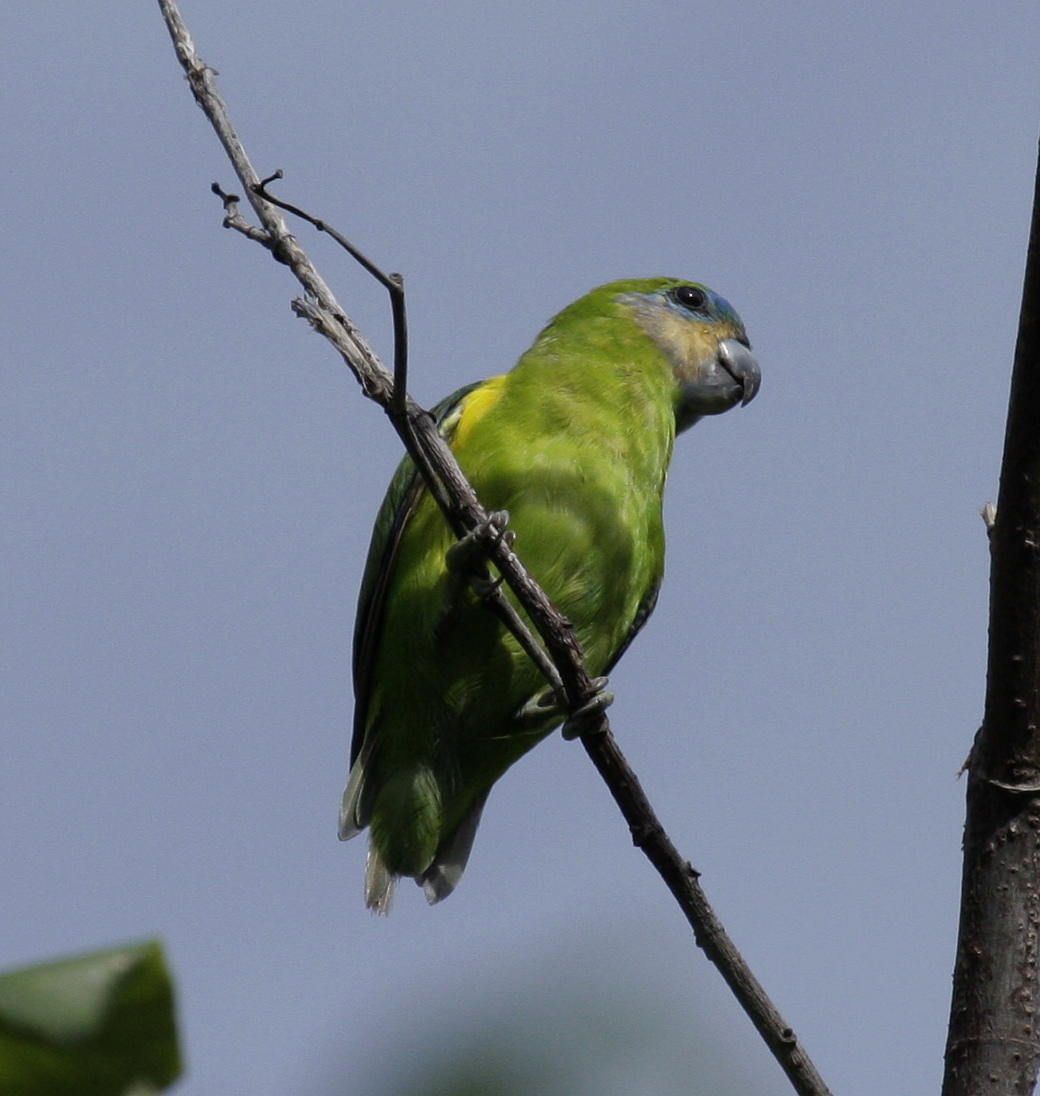 Female Double-eyed Fig-Parrot (Cyclopsitta diophthalma) race marshalli Portland Roads, Cape York, N Queensland, Australia